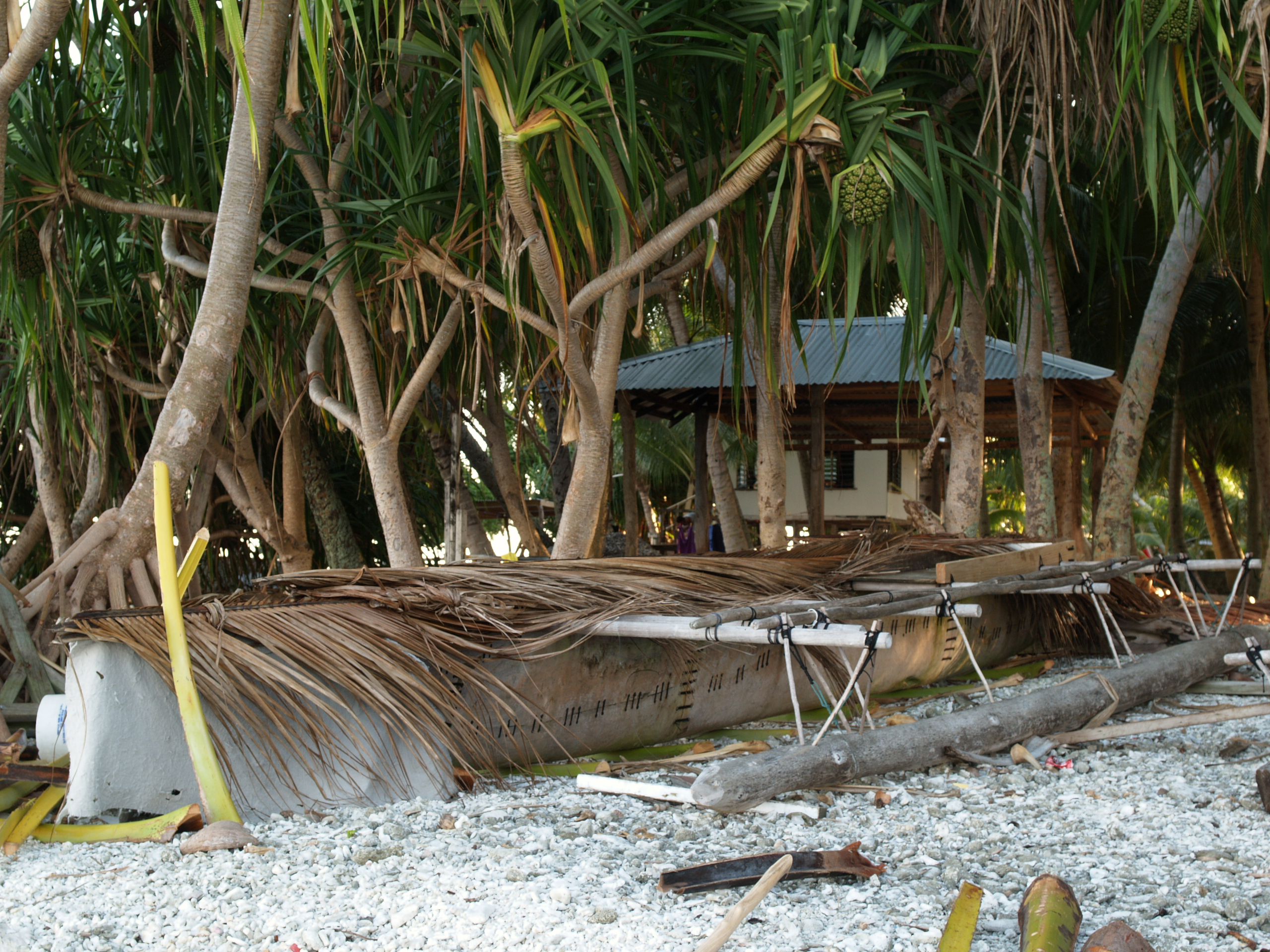 A traditional Tokelauan canoe (vaka) sits on the beach with a house behind it. Individual planks are tied together and the ties can be seen in the side of the hull.